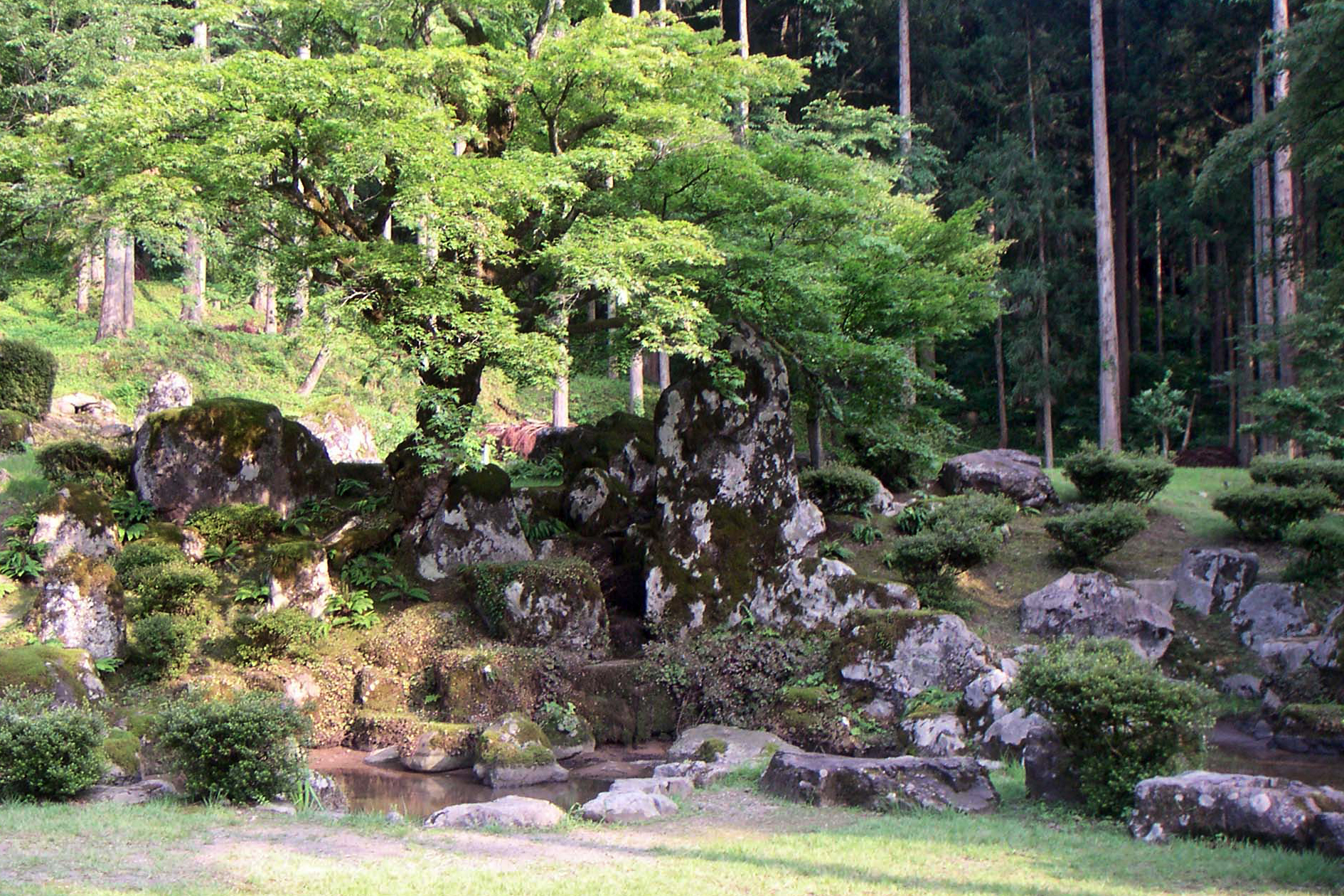 Suwa Residence Ruin Garden of Ichijodani valley in Fukui, Fukui prefecture, Japan.